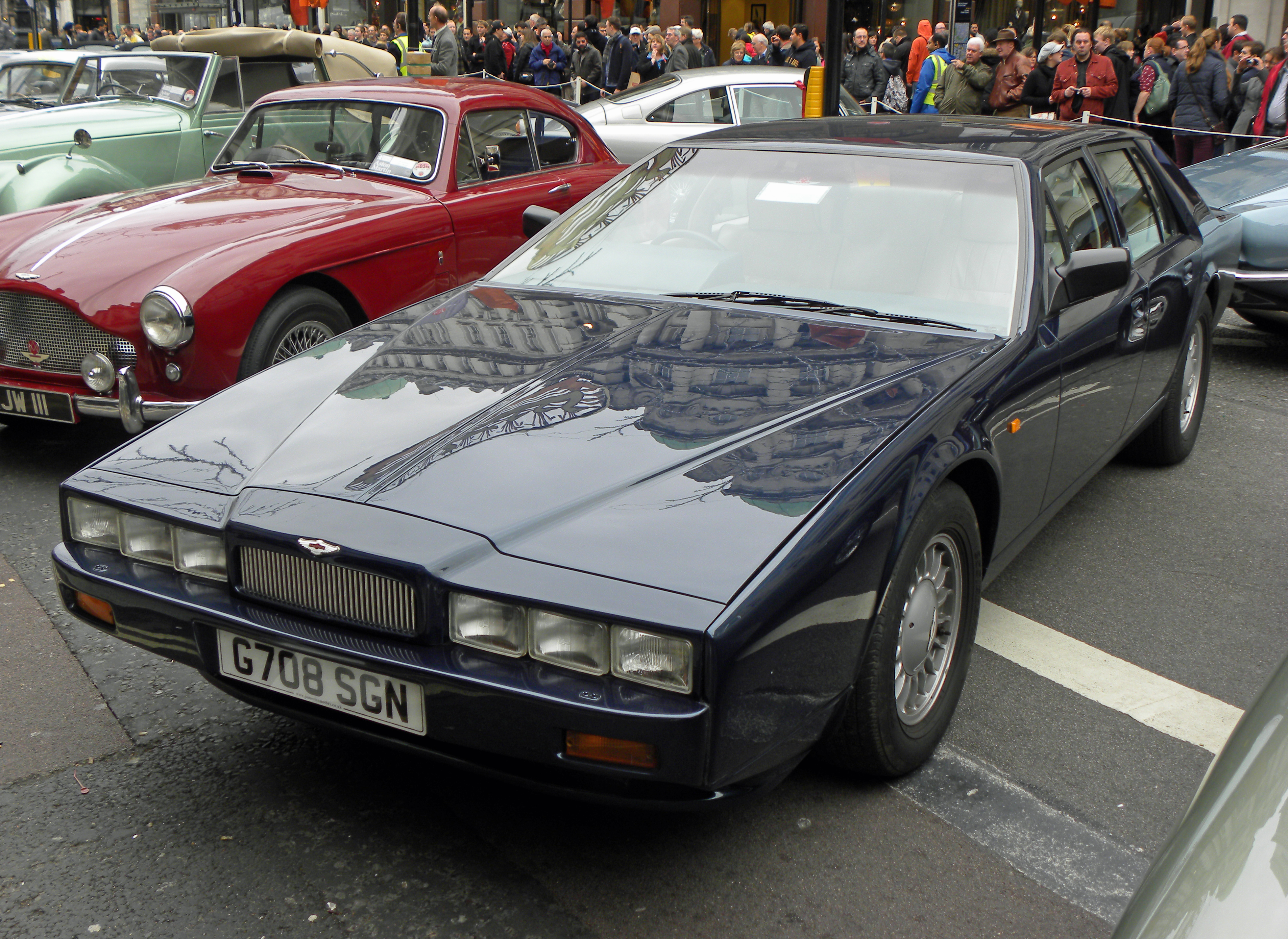 Aston Martin